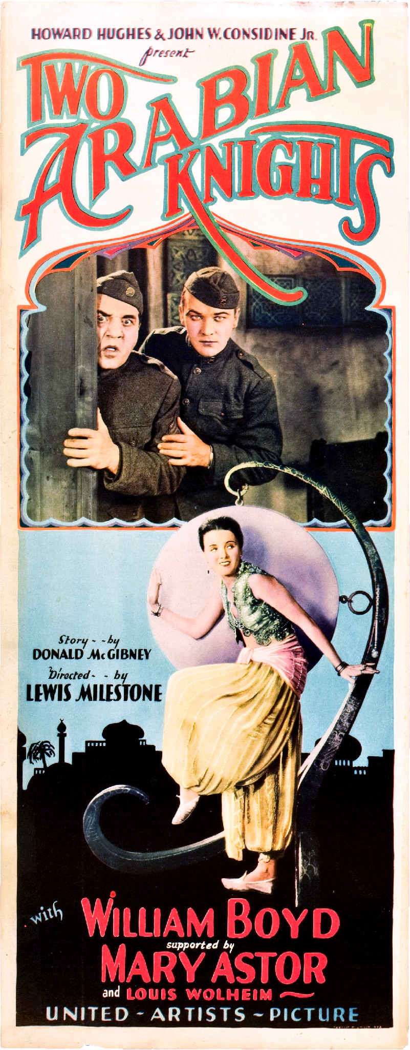 Poster for the American comedy film Two Arabian Knights (1927). The item has no copyright markings on it as can be seen in the links above. At bottom right is Country of origin USA.